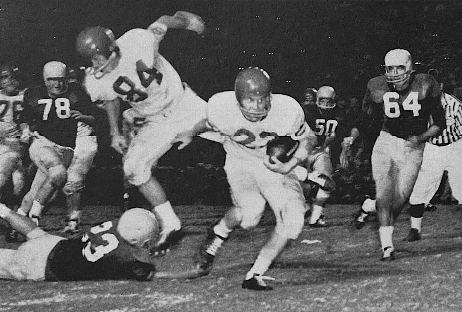 An American football game between the 1957 Houston Cougars football team and the Miami Hurricanes at Rice Stadium in Houston. Pictured are Houston's Claude King (#22), Bob Borah (#84), and Charlie Brown (#76), and Miami's Dan Coughlin (#64), Byron Blasko (#23), Frank Nodoline (#78), and Jim Otto (#50).